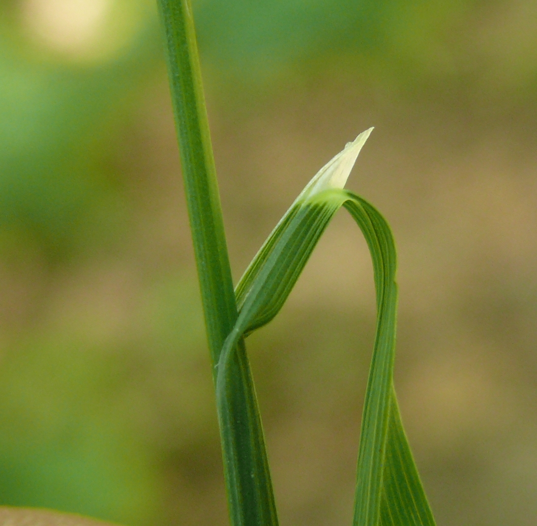 Melica picta,Hohenlohe